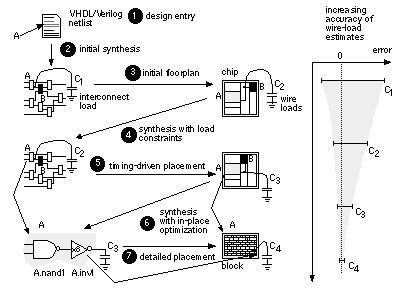 Basic Backend Flow